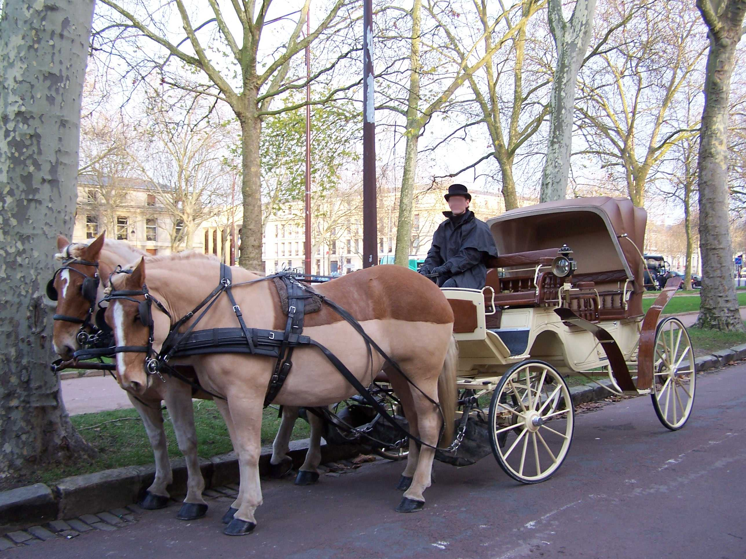 Horse-drawn barouche in Versailles, France.